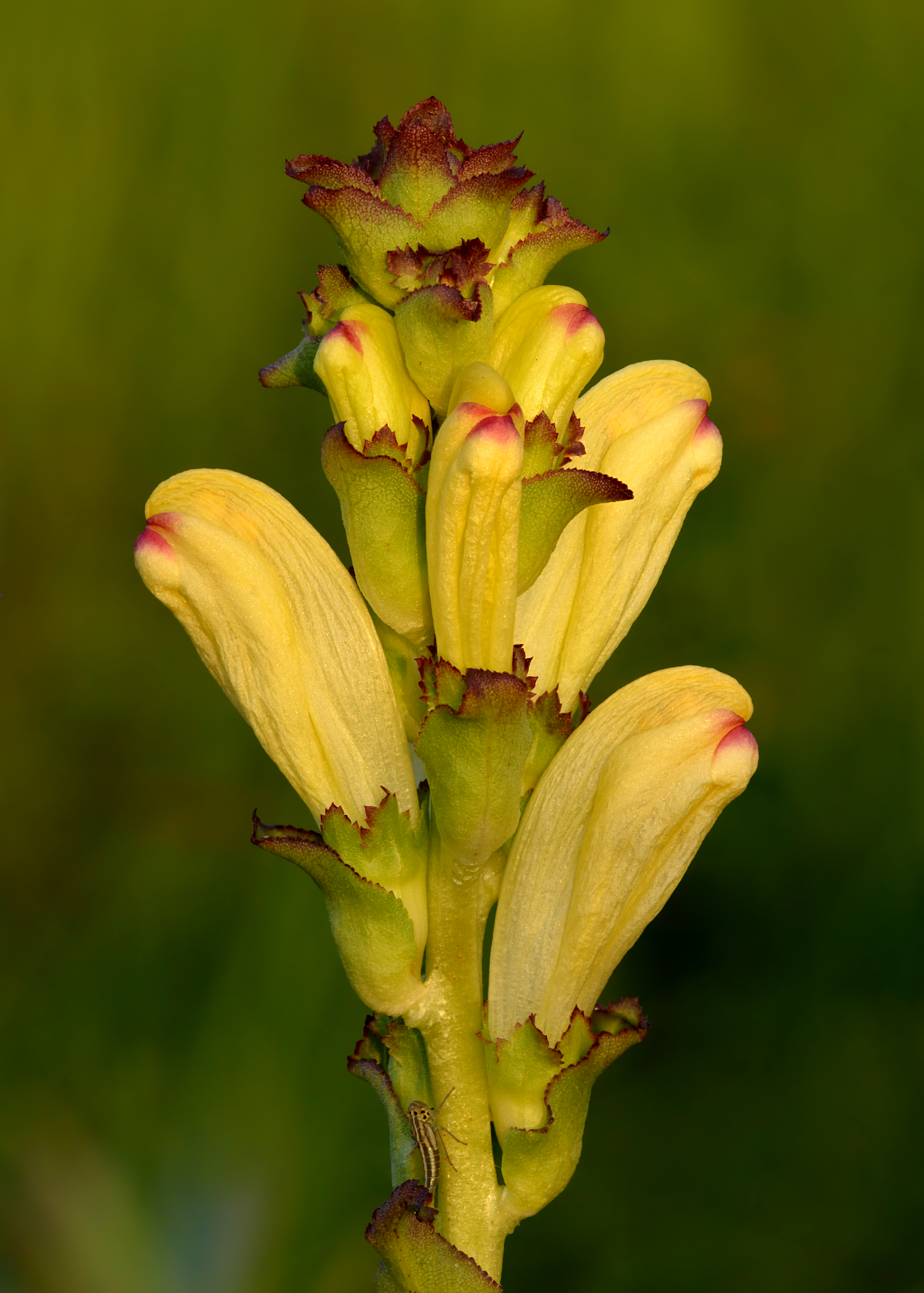 Inflorescence of Lousewort